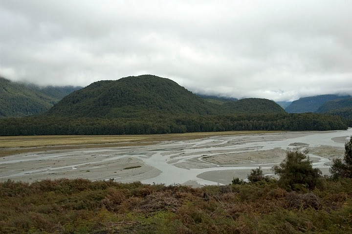 Dart River in New Zealand. Used as filming location for Isengard in the Lord of the Rings movie, where the mountain can be seen behind Saruman's tower.